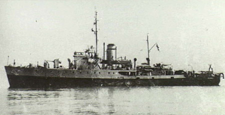 Australian Bathurst class escort minesweeper HMAS Kalgoorlie. AWM caption: Bathurst class minesweeper/corvette HMAS Kalgoorlie. Completed on 7 april 1942 Kalgoorie spent her war service in Australian southwest Pacific and Indian oceans areas including a period with the British pacific fleet. After the war she paid off and in may 1946 was sold to the Netherlands Government en renamed Ternate